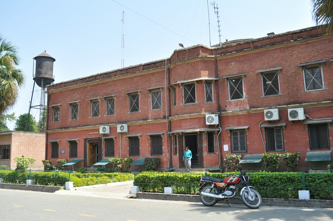 One of the oldest structure at the institute, originally called as engineering building, now houses Registrar and Finance office. The institute water tank is seen in the background.